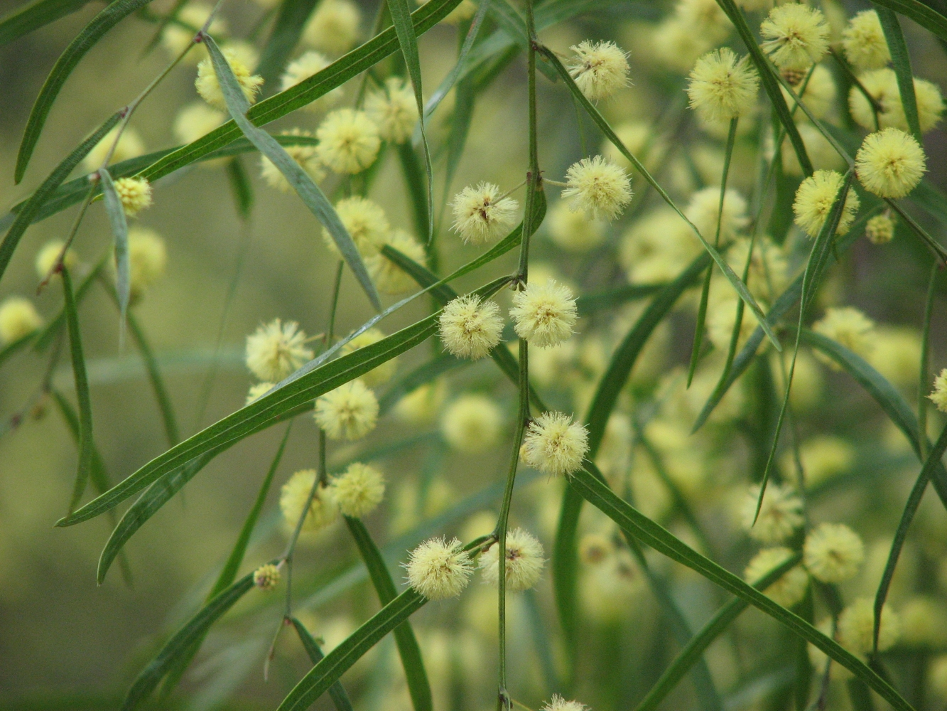 Acacia stictophylla, Dandenong Ranges, Victoria, Australia